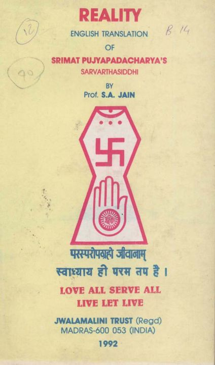 Reality (English translation of the Jain text, Sarvarthasiddhi) by Prof. S.A. Jain